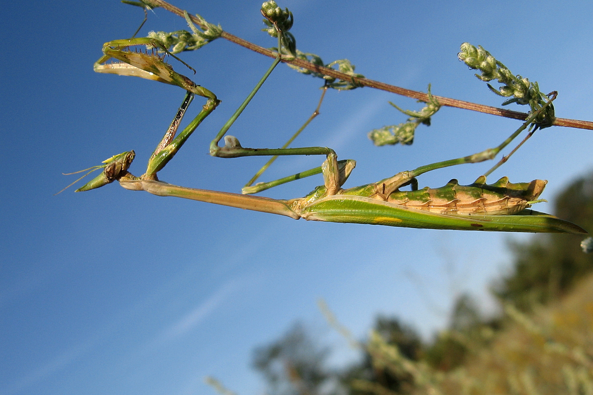 Empusa fasciata (Empusidae) (Solonoozerna section of the Black Sea Biosphere Reserve). This species is listed in the Red Book of Ukraine.